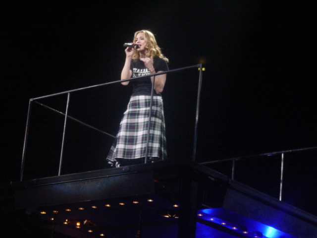 Concert